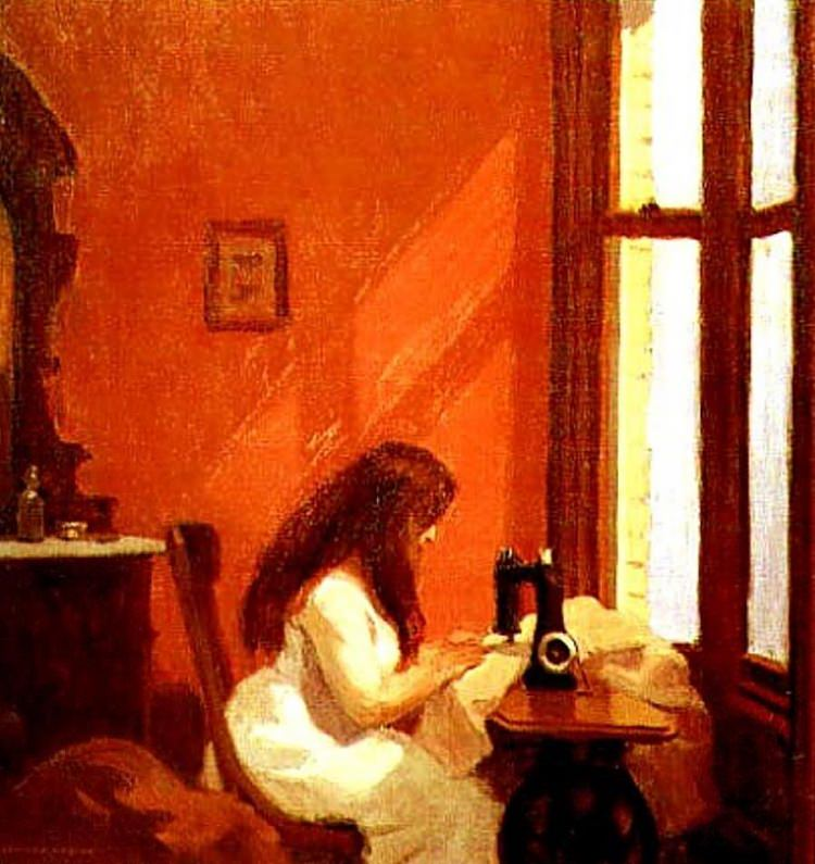 Girl at Sewing Machine is a 1921 painting by Edward Hopper, now in the Thyssen-Bornemisza Museum in Madrid, Spain.